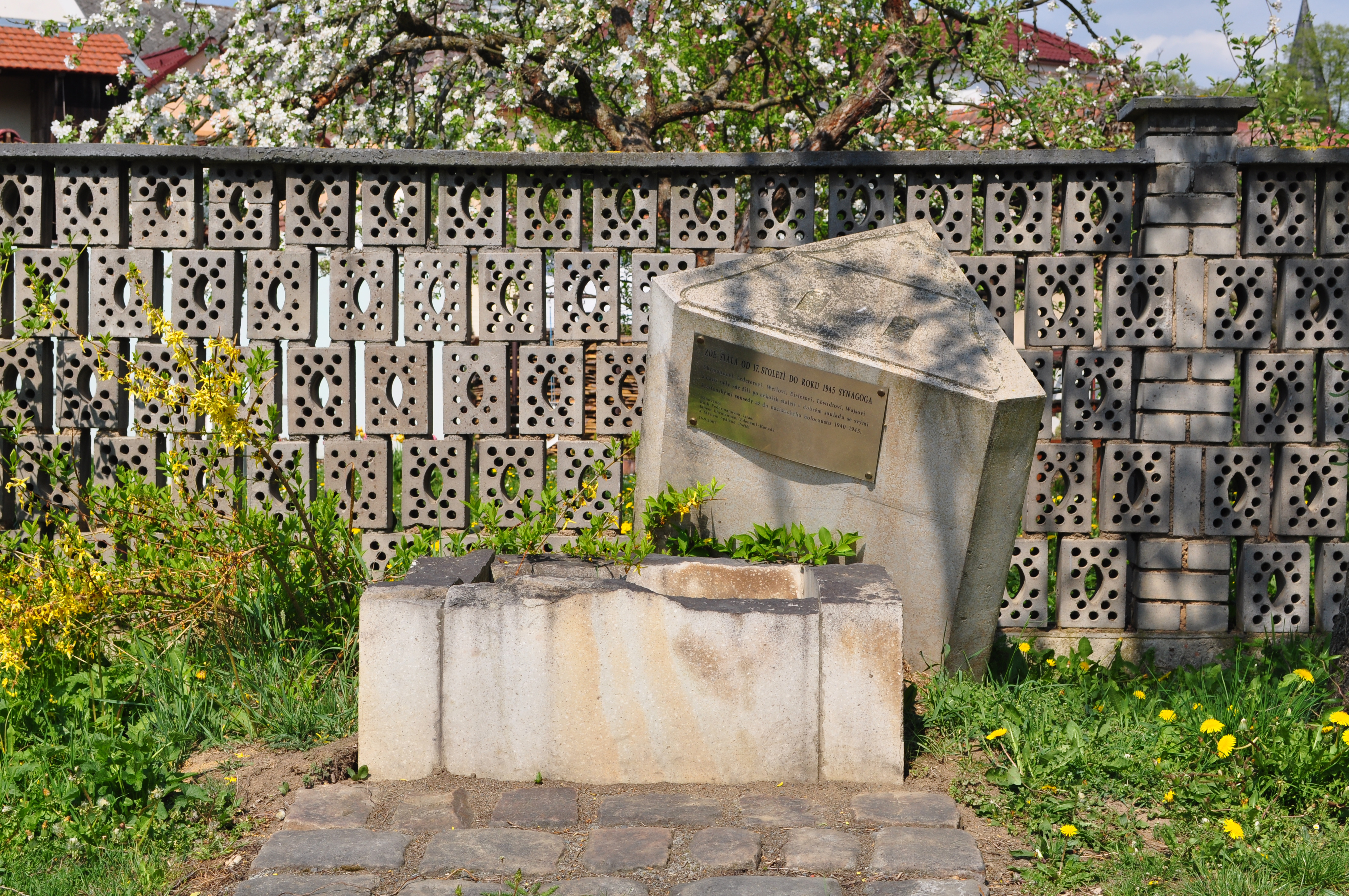 Memorial of the former synagogue